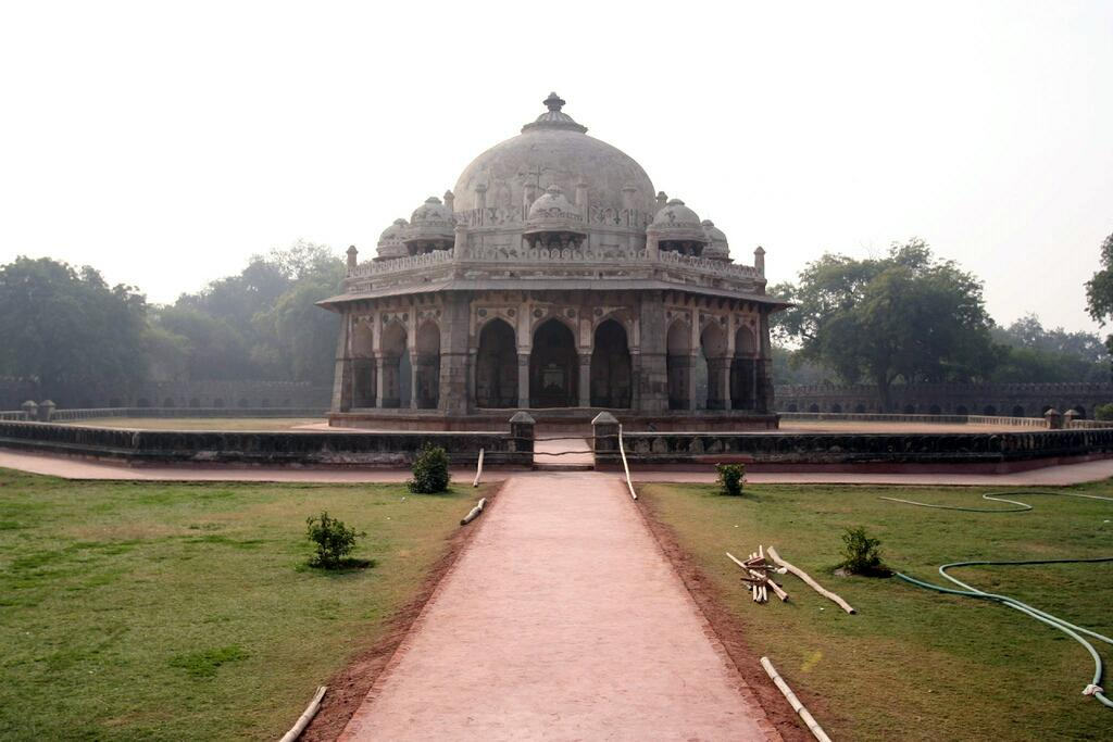 Isa Khan's Tomb (16th century) at Delhi, India, with Humayun's Tomb, complex.